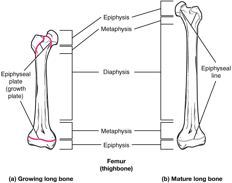 Illustration from Anatomy & Physiology, Connexions Web site. Jun 19, 2013.